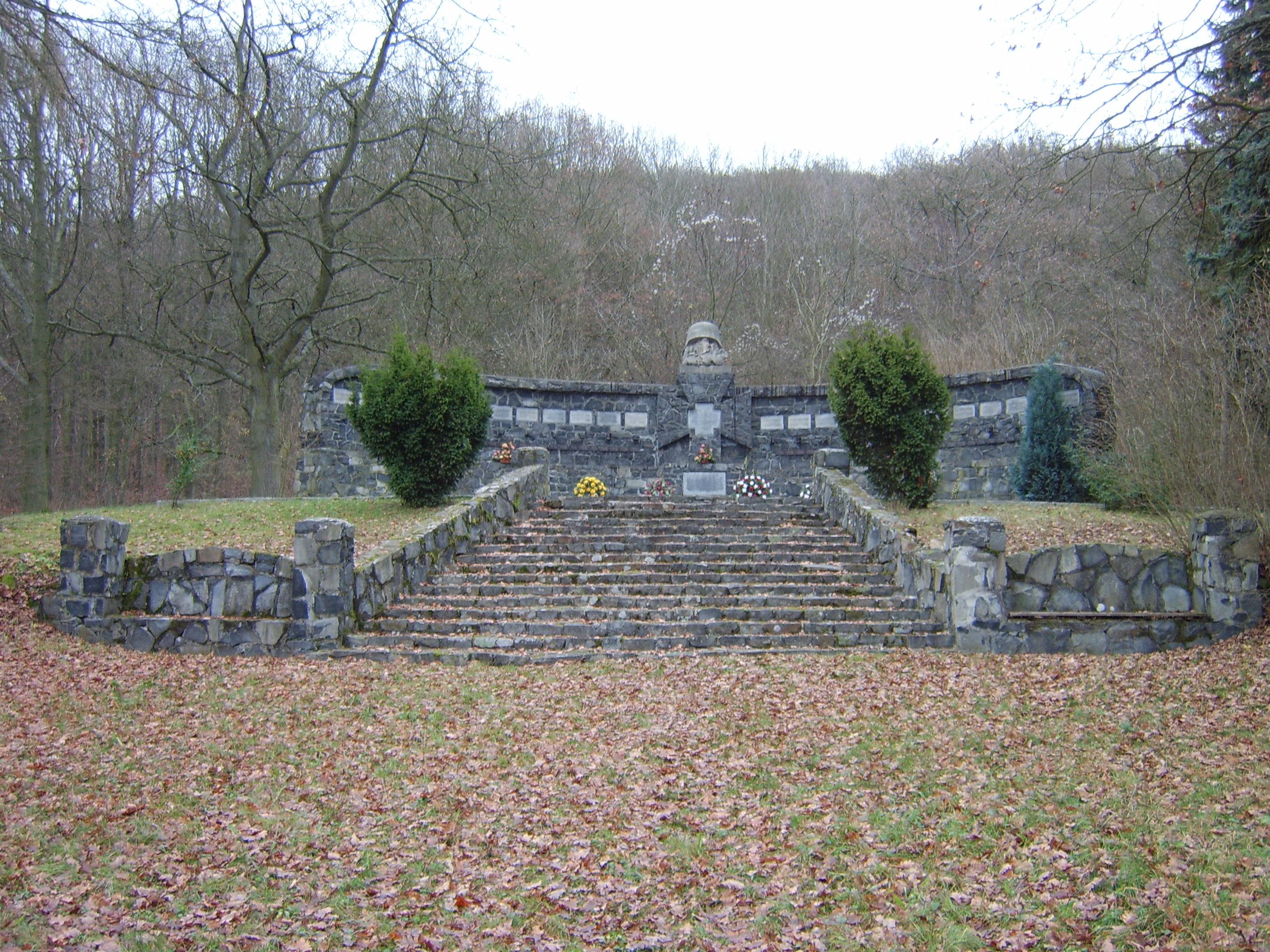 Monument and roll of honours for the victims of the first and second worldwar.